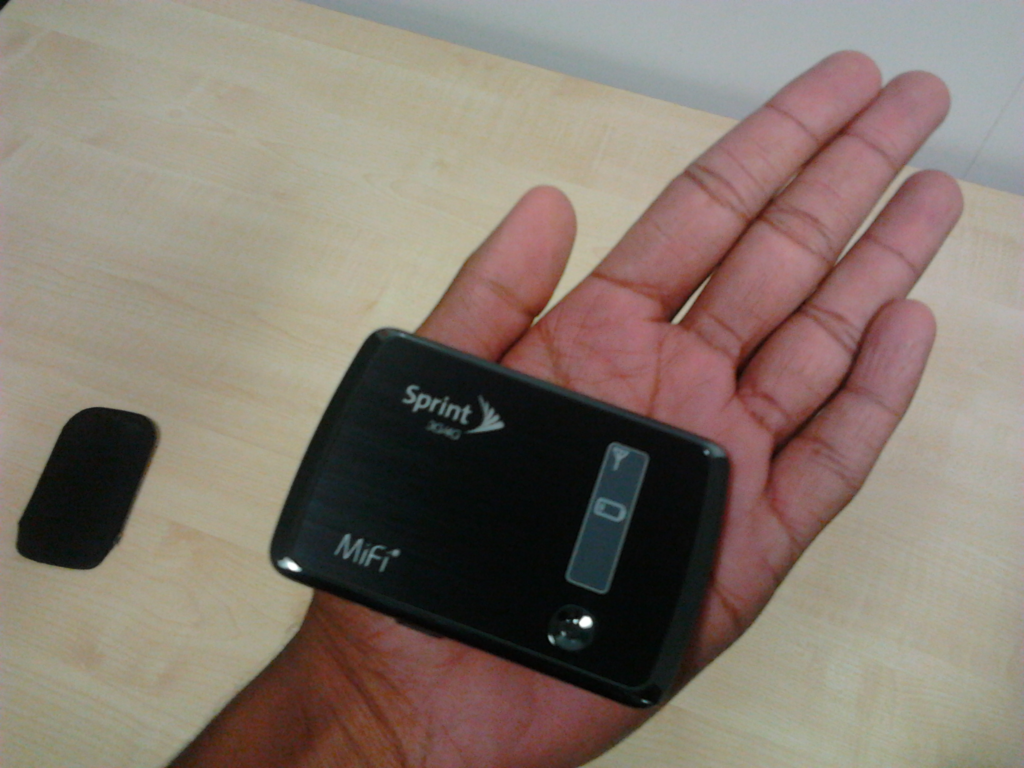 Photoed using Samsung Wave 525.